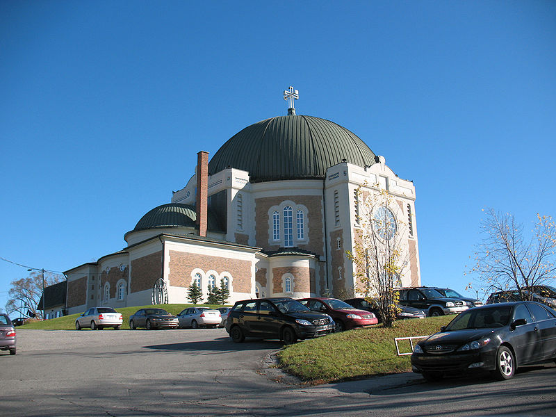 A church in Amos, Quebec